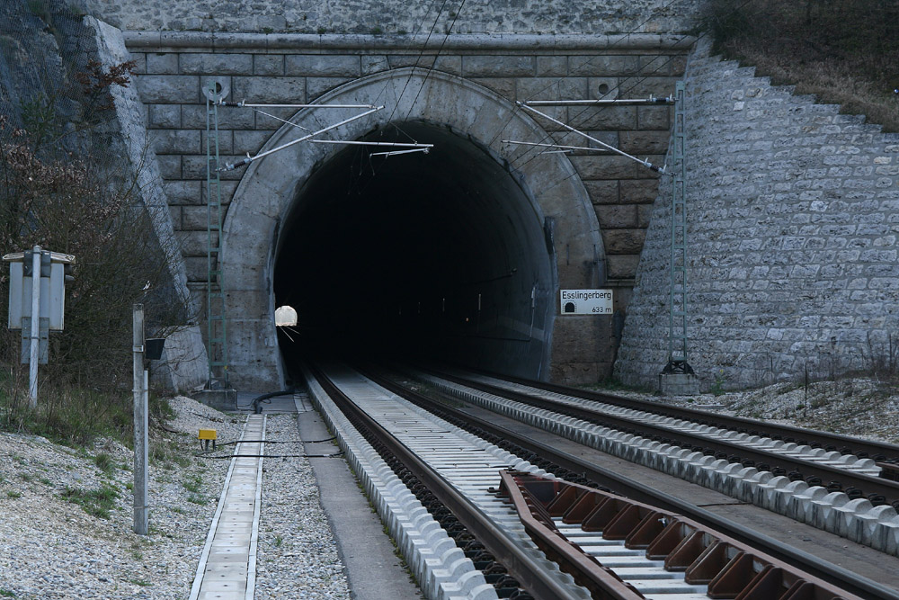 The western entrance to the Esslinger Berg Tunnel (633 meters in length), on the Ingolstadt-Treuchtlingen railway line.